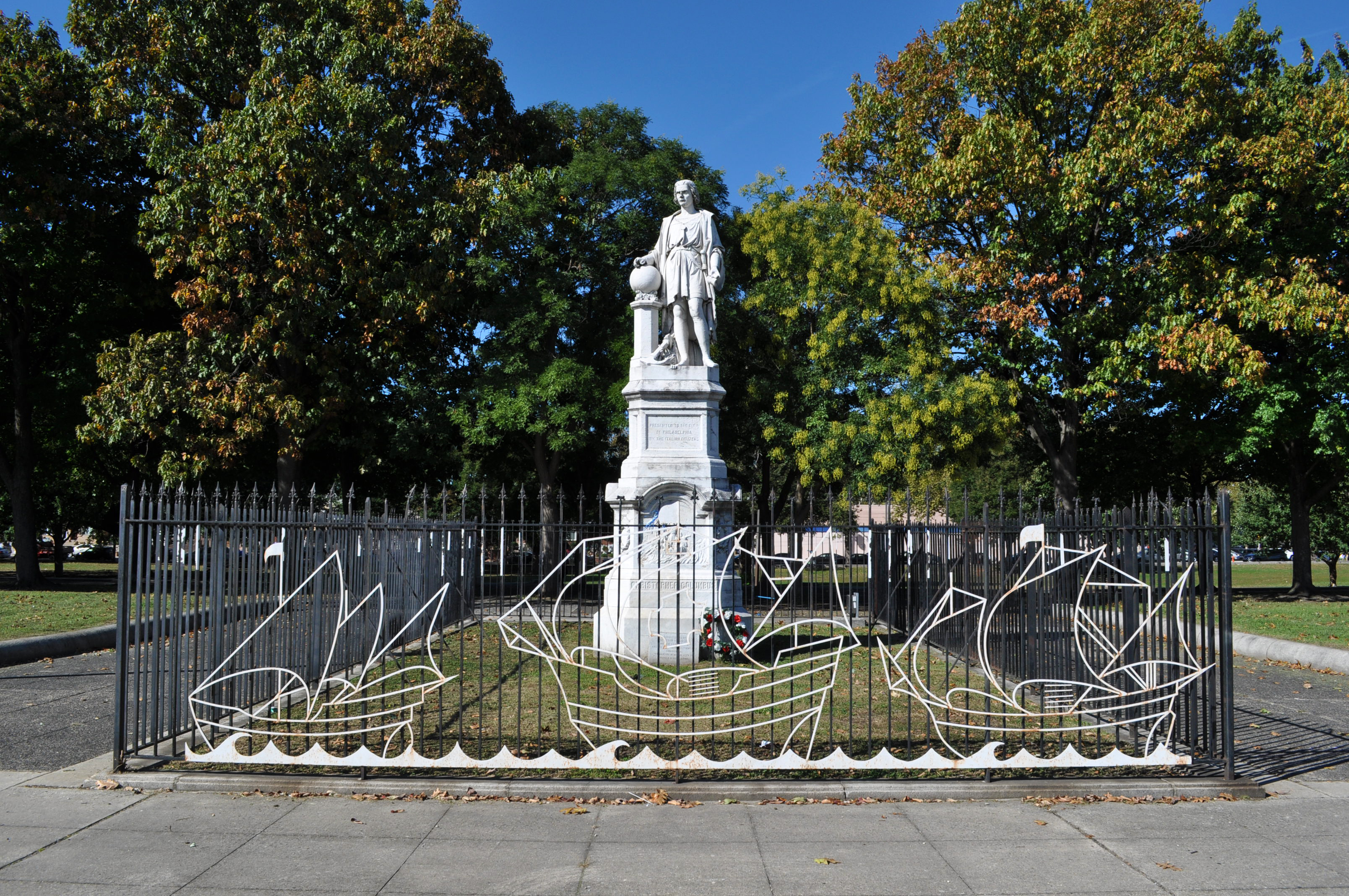 Christopher Columbus Monument from the Centennial Exposition - Displayed until 2020 at Marconi Plaza, 2848 S Broad St Philadelphia, Pennsylvania, within railing sculpture of Nina, Pinta and Santa Maria - Emanuele Caroni, Sculptor (1876)